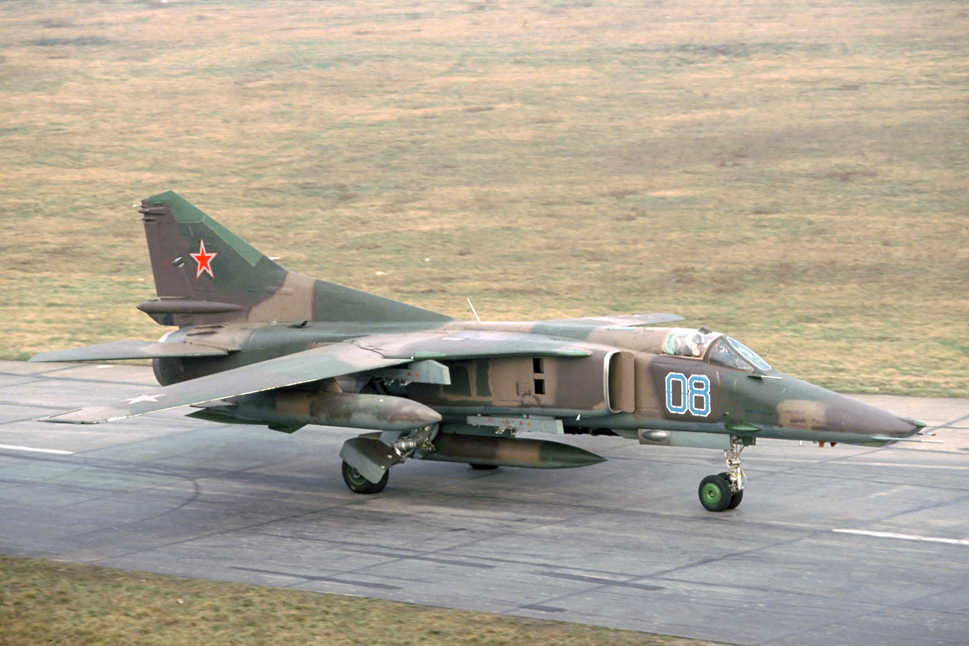 22 March 1993. One of the better looking MiG-27s of the 559th Fight-bomber Aviation Regiment taxiing to the runway of Finsterwalde, East Germany.